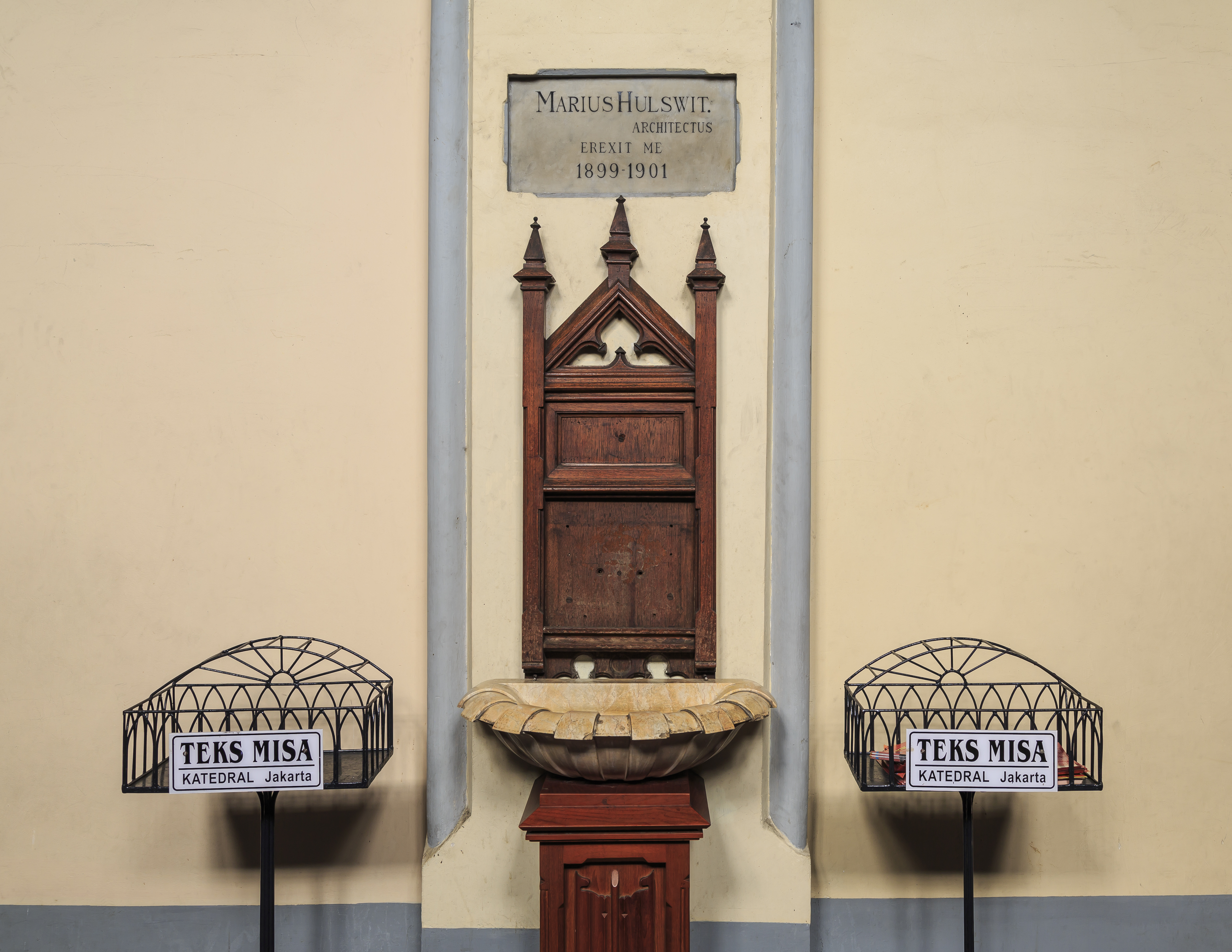 Jakarta, Indonesia: Stoup at the main entrance of Jakarta Cathedral with a memorial stone to Marius Hulswit, the dutch architect which finalized the cathedral in the years 1899 to 1901.